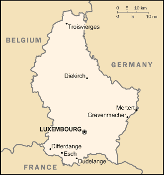 Map of Luxembourg showing major cities. Converted directly from CIA World Factbook GIF.